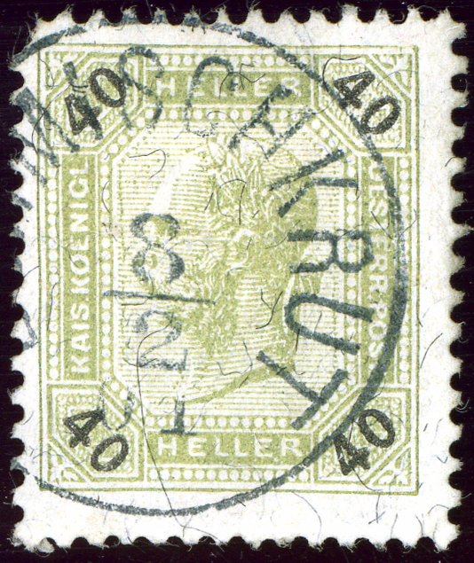 Austrian KK 40 heller stamp, issue December 1899, cancelled at BÖHMISCHKRUT (Grosskrut since 1922) on 8-2-1901, Lower Austria.